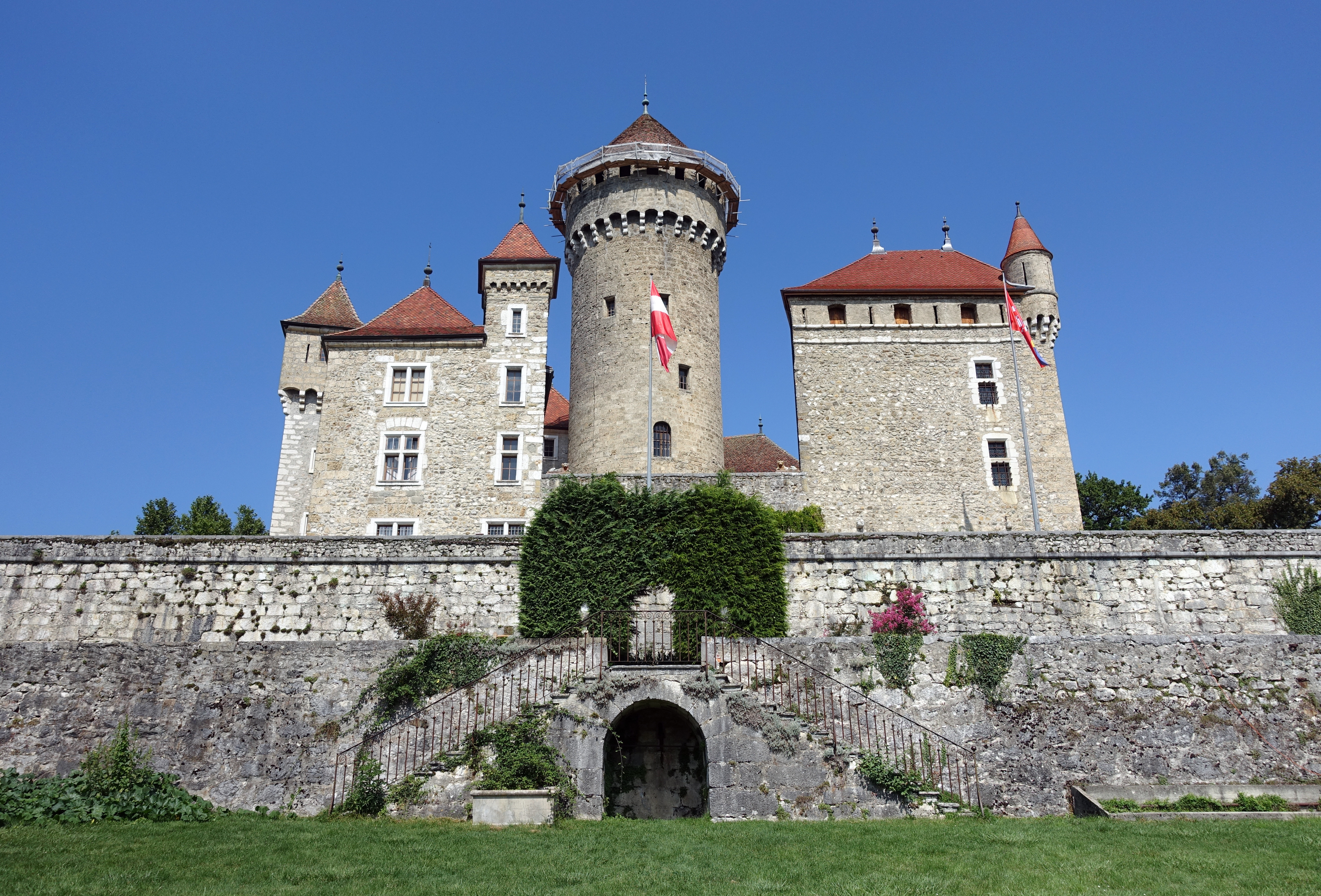 Southern facade of the Montrottier Castle in August 2019. Lovagny, France.